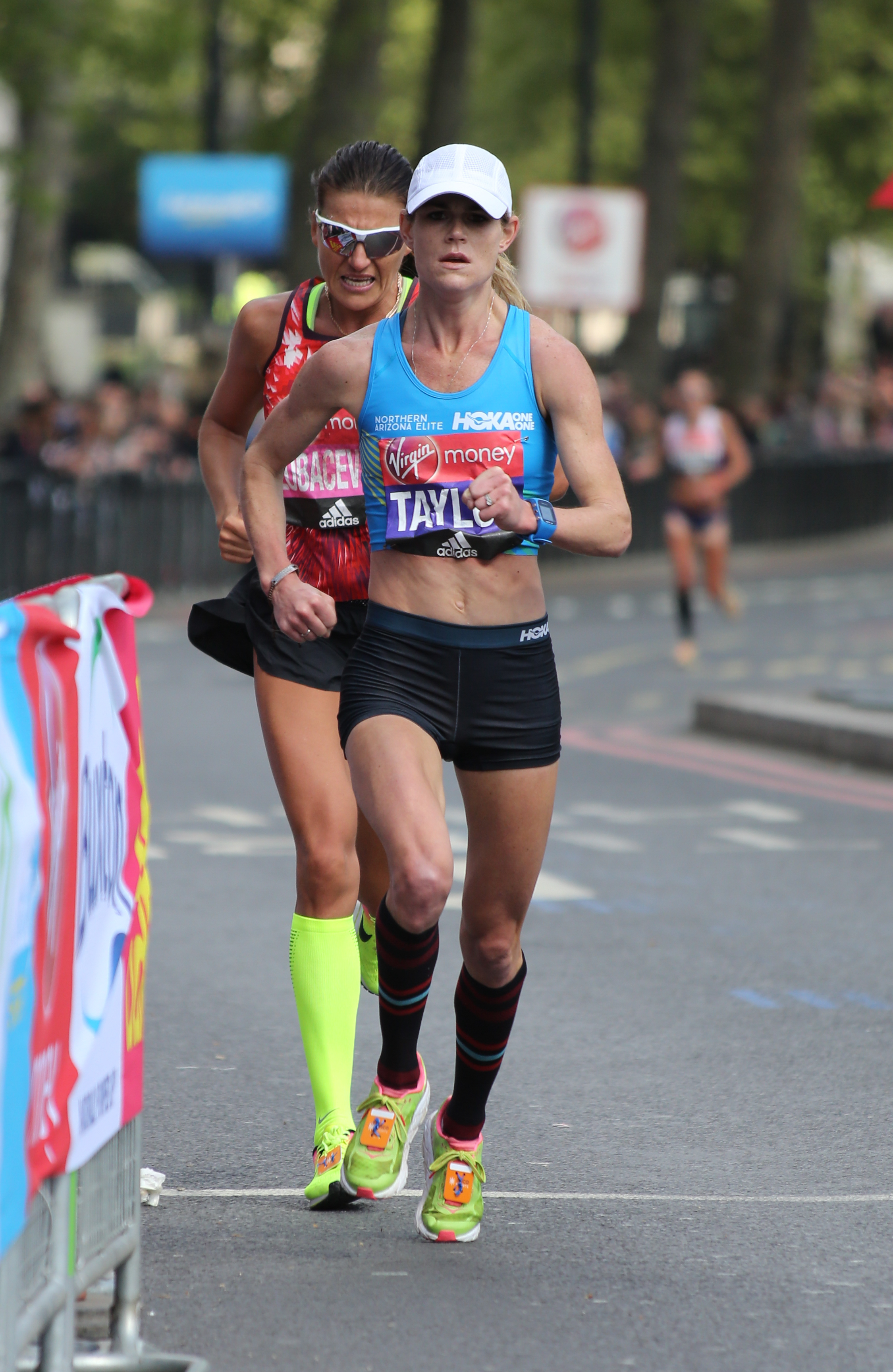 2017 London Marathon – Diana Lobacevske & Kellyn Taylor